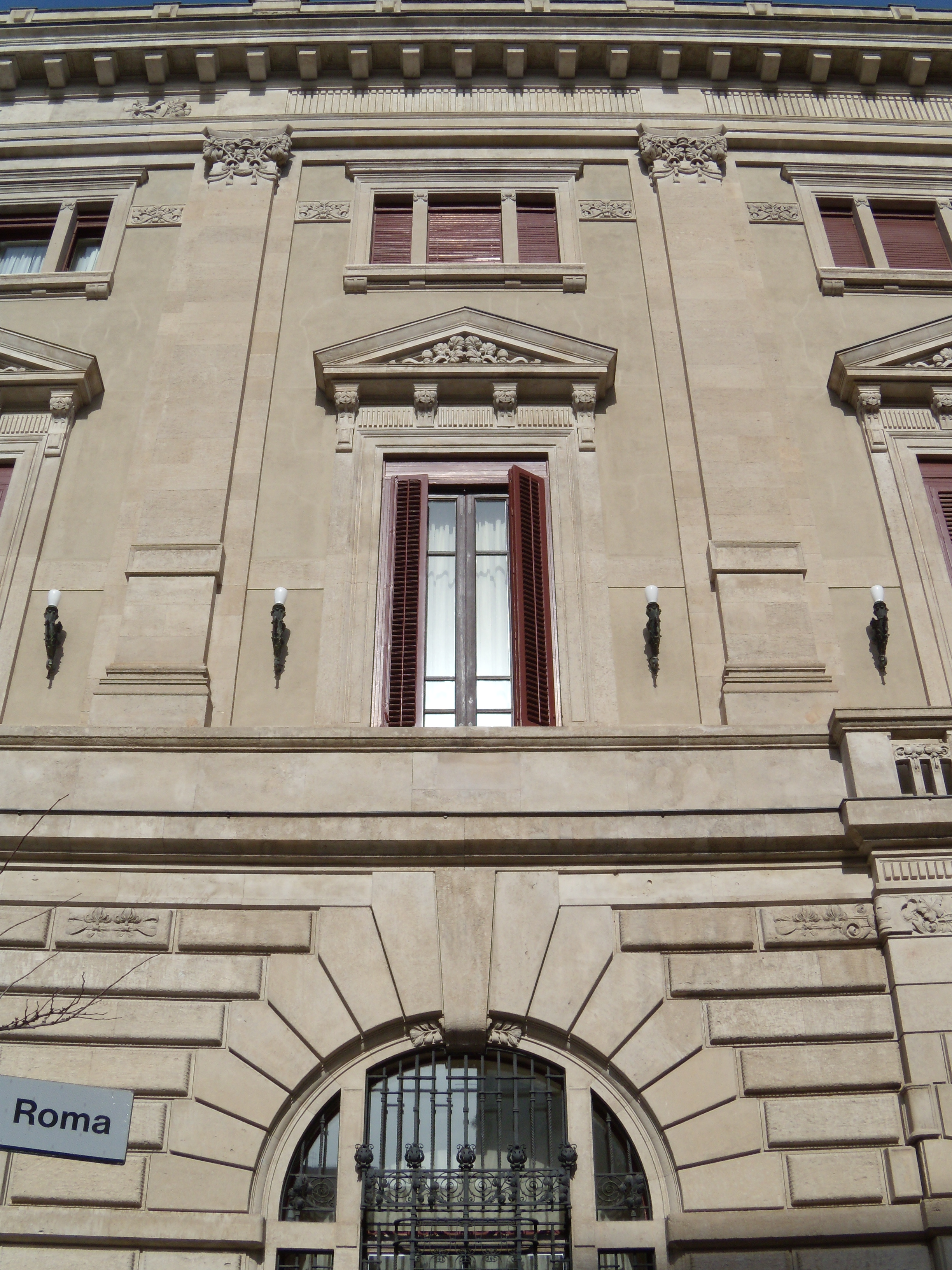 Cassa di Risparmio, piazza Borsa, Palermo, by Ernesto Basile